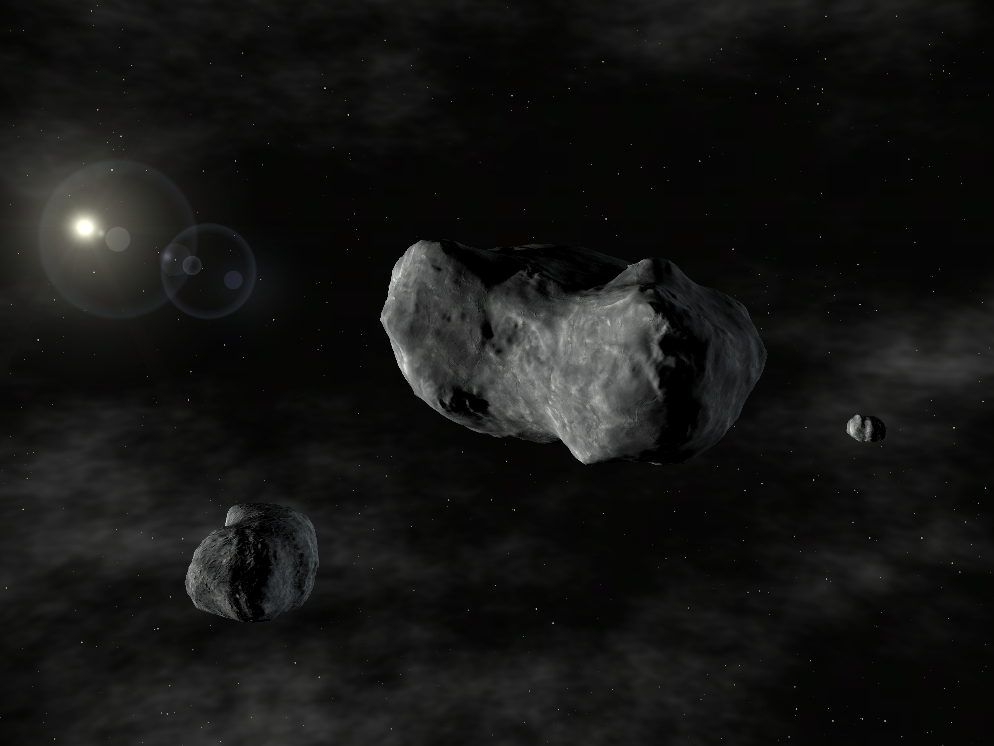 Artist rendering of the triple system: Romulus, Sylvia, and Remus. This is the first triple asteroid system discovered - two small asteroids orbiting a larger one known since 1866 as 87 Sylvia. Because 87 Sylvia was named after Rhea Sylvia, the mythical mother of the founders of Rome, the twin moons are named after those founders: Romulus and Remus. Sylvia's moons are considerably smaller, orbiting in nearly circular orbits and in the same plane and direction. The closest and newly discovered moonlet, orbiting about 710 km from Sylvia, is Remus, a body only 7 km across and circling Sylvia every 33 hours. The second, Romulus, orbits at about 1360 km in 87.6 hours and measures about 18 km across. The asteroid 87 Sylvia is one of the largest known from the asteroid main belt, and is located about 3.5 times further away from the Sun than the Earth, between the orbits of Mars and Jupiter. The wealth of details provided by the NACO images show that 87 Sylvia is shaped like a lumpy potato, measuring 380 x 260 x 230 km. It is spinning at a rapid rate, once every 5 hours and 11 minutes.